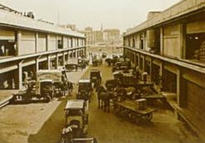 Activity on Princes Wharf in Auckland City, New Zealand.